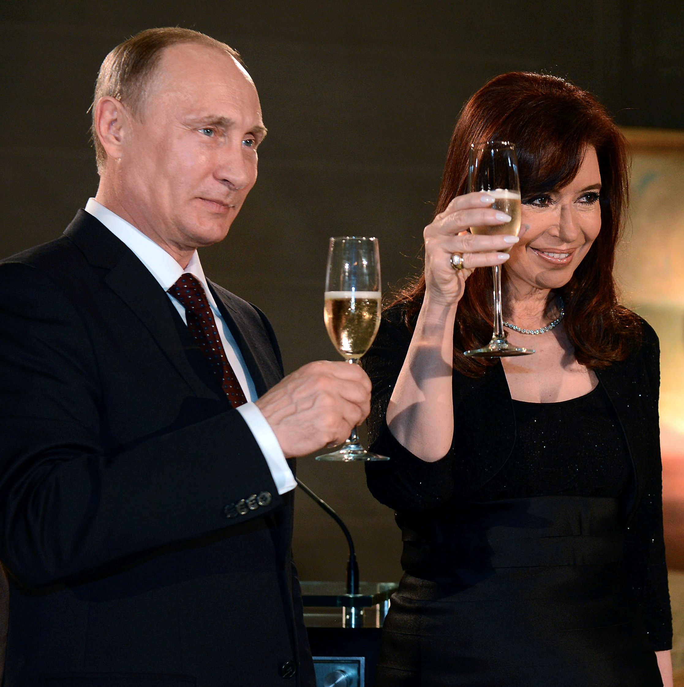 Cristina Fernández and Vladimir Putin in Argentina. Putin first time in that country.